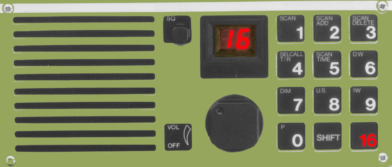 Marine radio transceiver VHF, 156 to 162 MHz